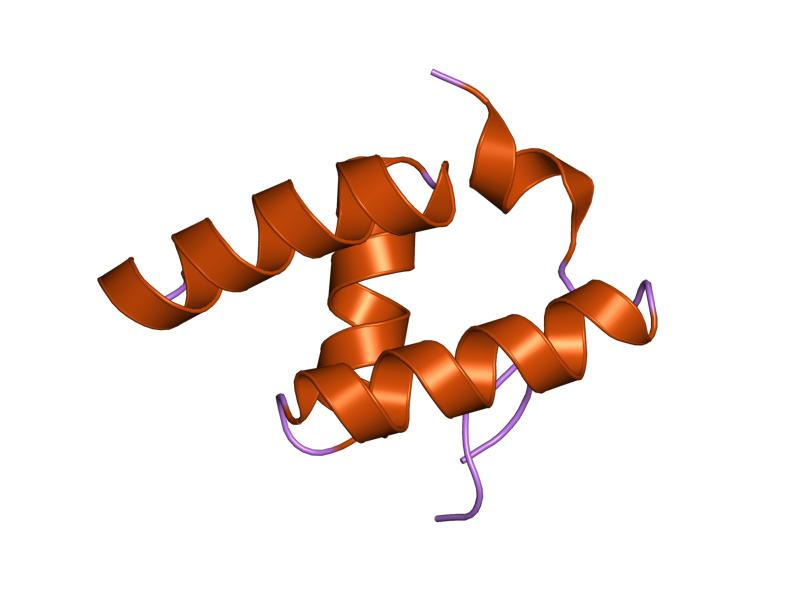 Cartoon representation of the molecular structure of protein registered with 1oai code.